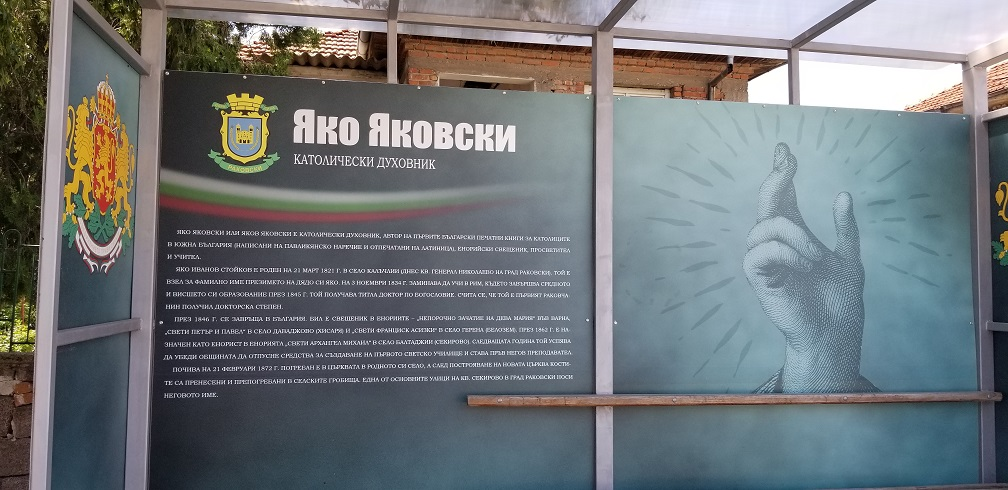 Bus stop in Rakovski